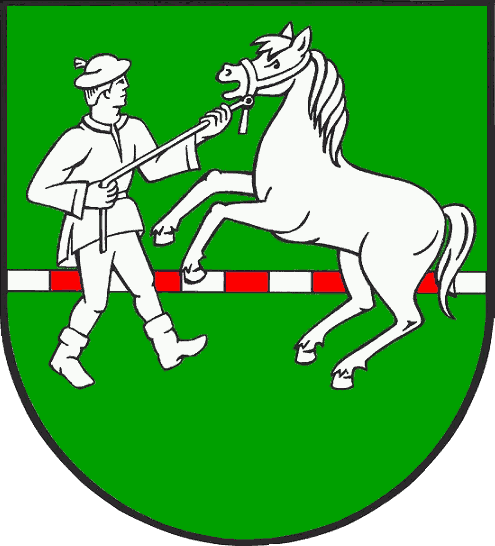 Coat of arms of the municipality Gribbohm in Schleswig-Holstein, Germany.